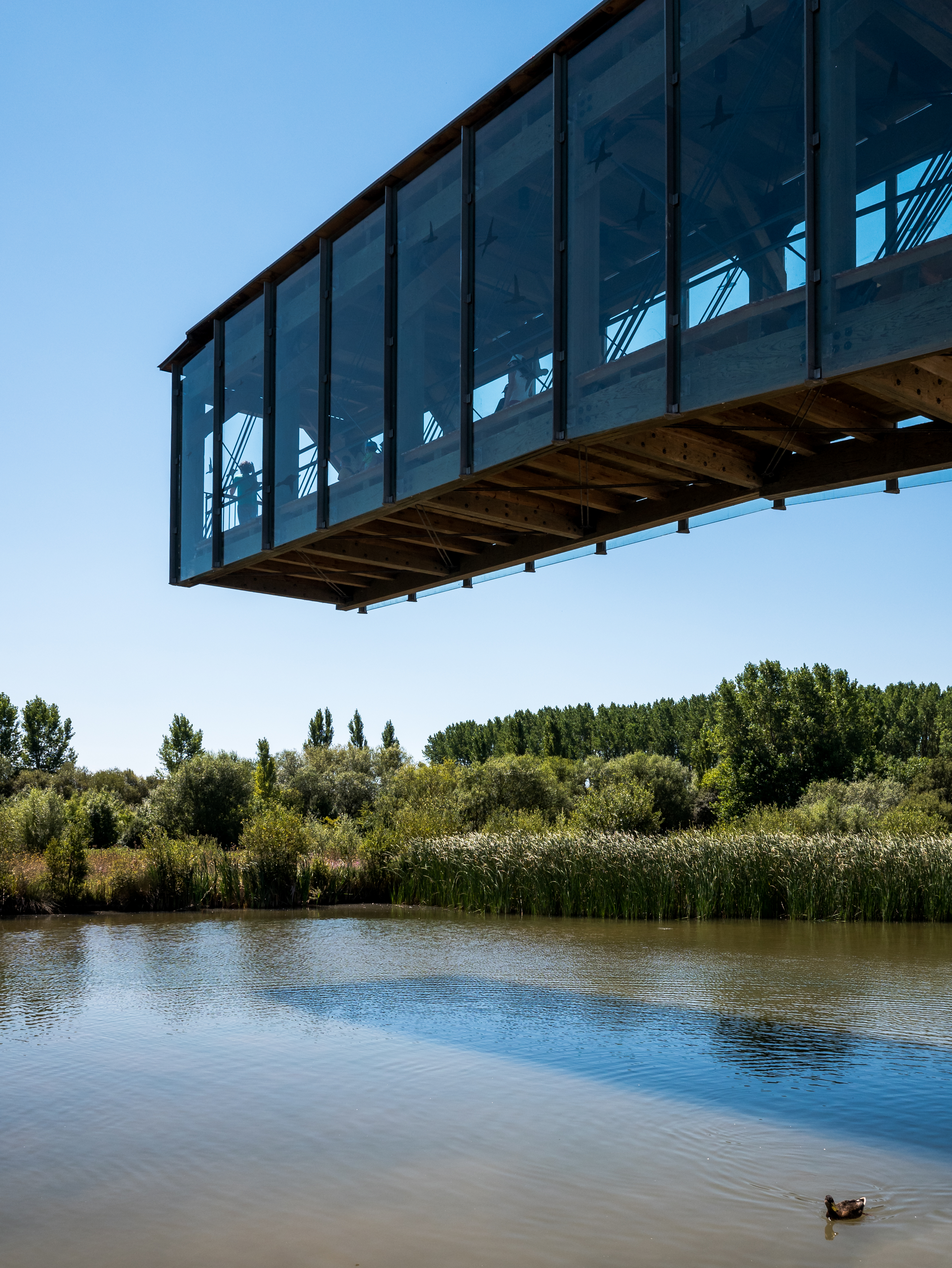 Ataria Interpretation Centre of the Salburua wetlands and viewpoint. Vitoria-Gasteiz, Basque Country, Spain